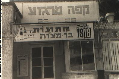 בית קפה מרגוע קרית אתא